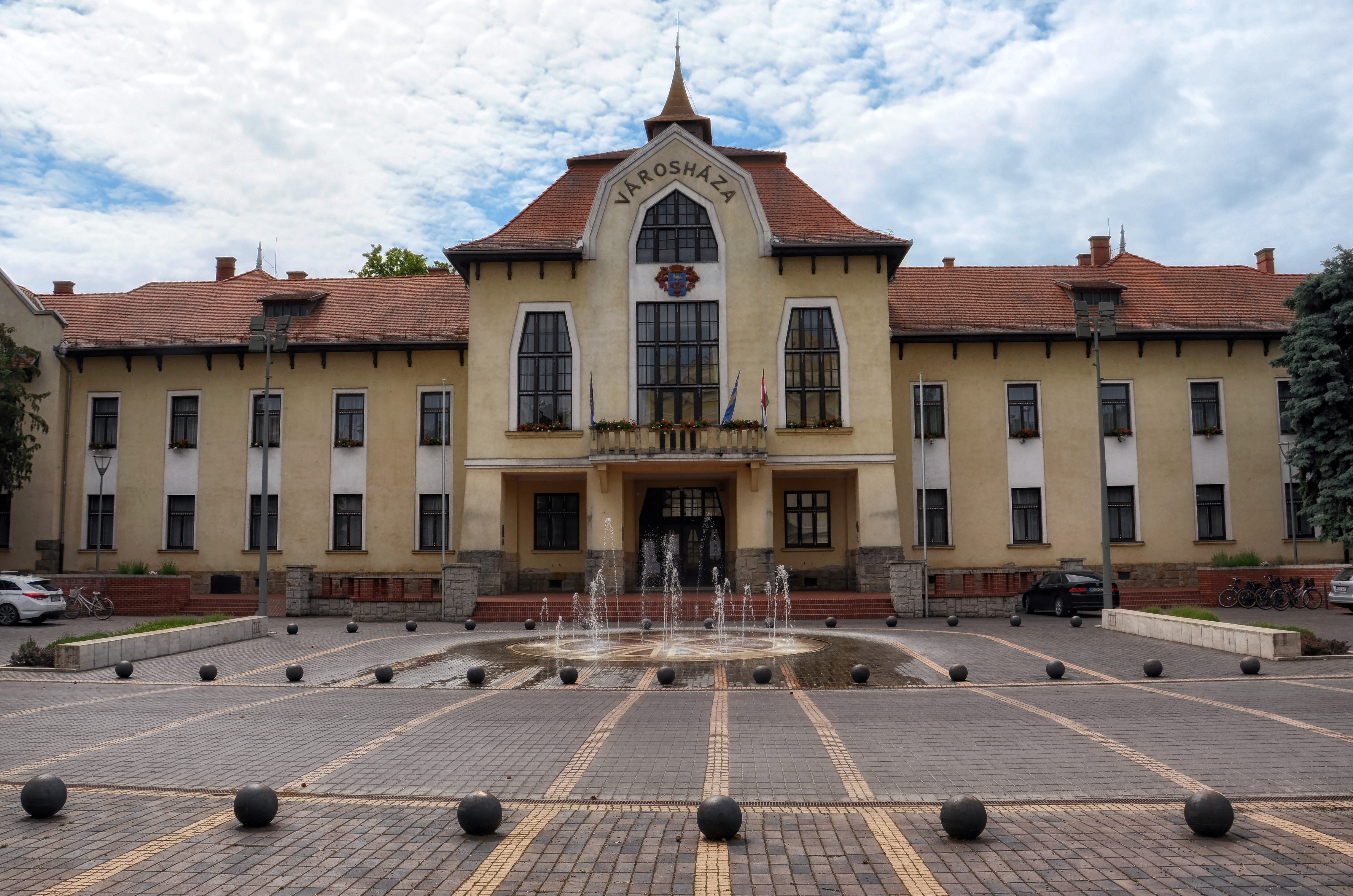 The Town Hall of Csongrád, Hungary